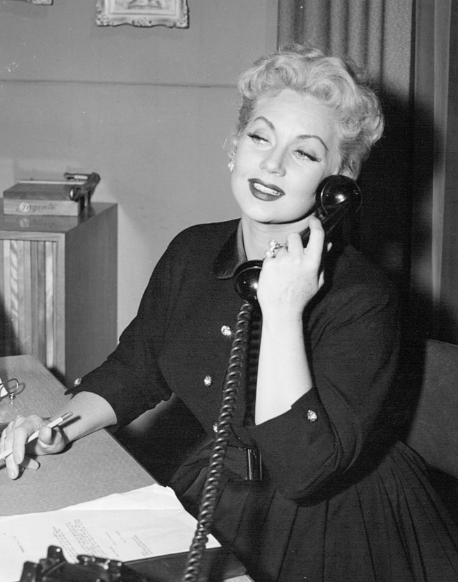 Photo of Ann Sothern as Susie McNamara from the television program Private Secretary. The item has no copyright markings on it as can be seen in the links above.